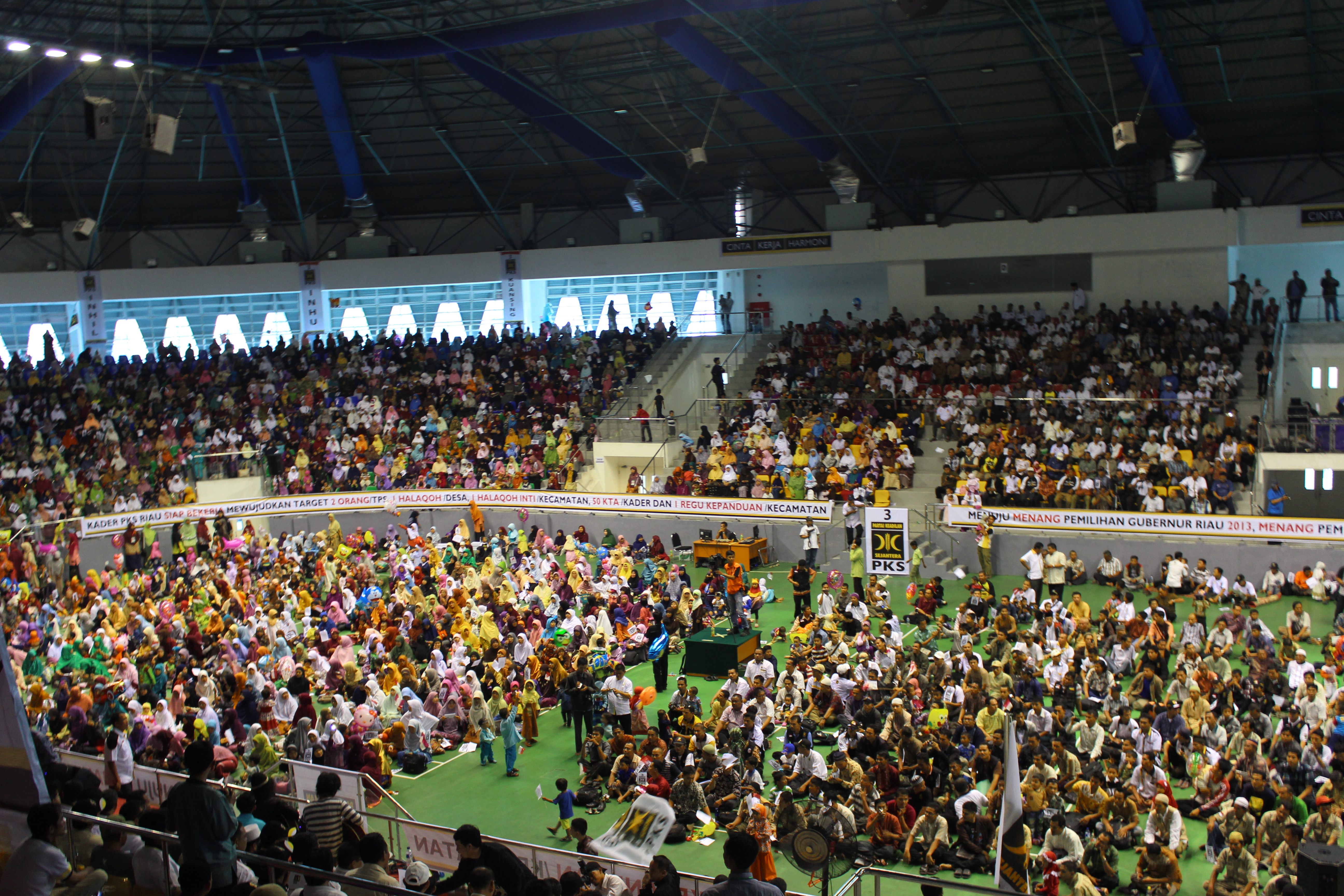 Thousands of PKS cadres gathering in Gelanggang Remaja Pekanbaru to meet the president of the party, Anis Matta.